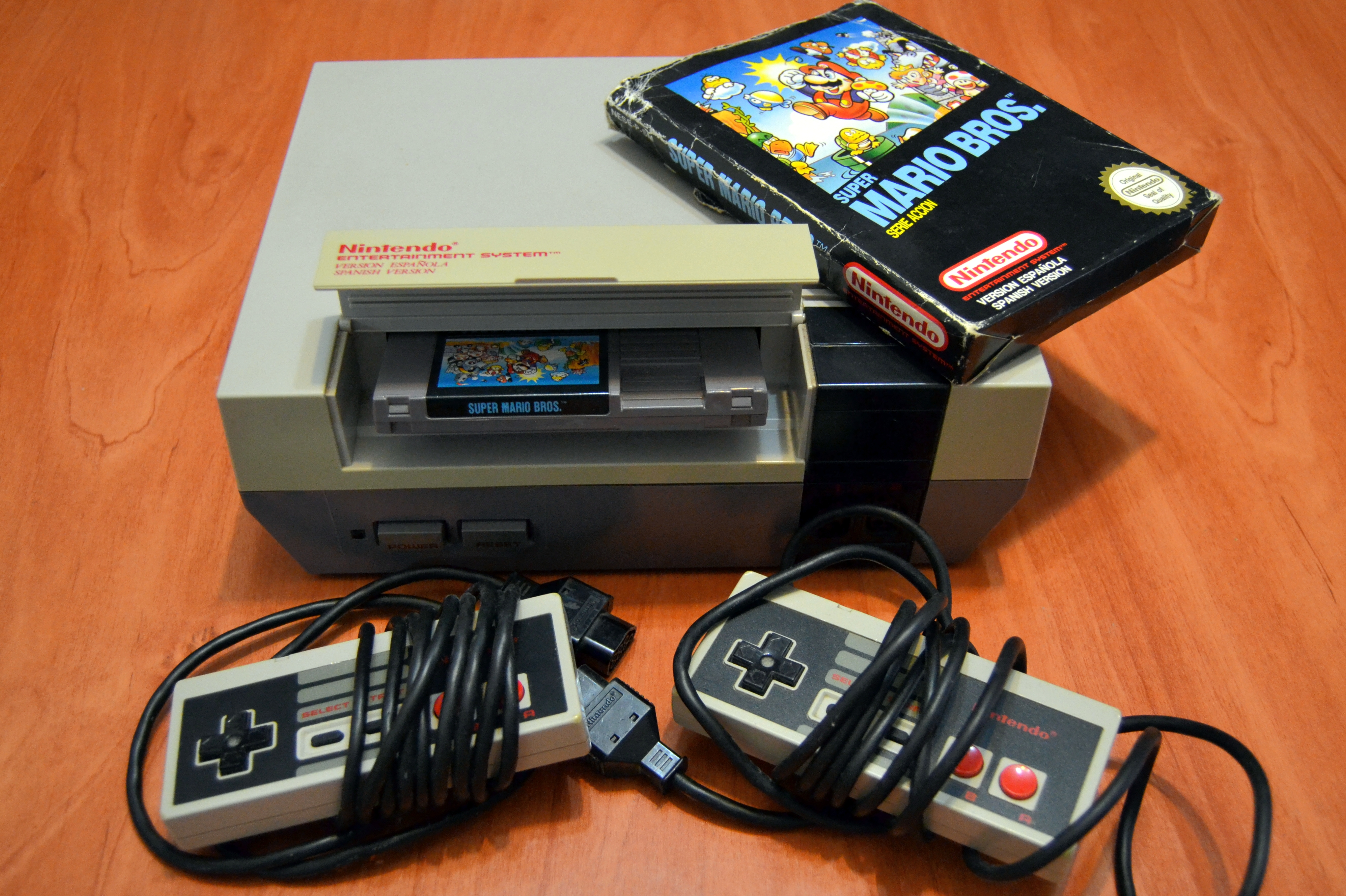 Nintendo Entertainment System with two controllers and Super Mario Bros. videogame.